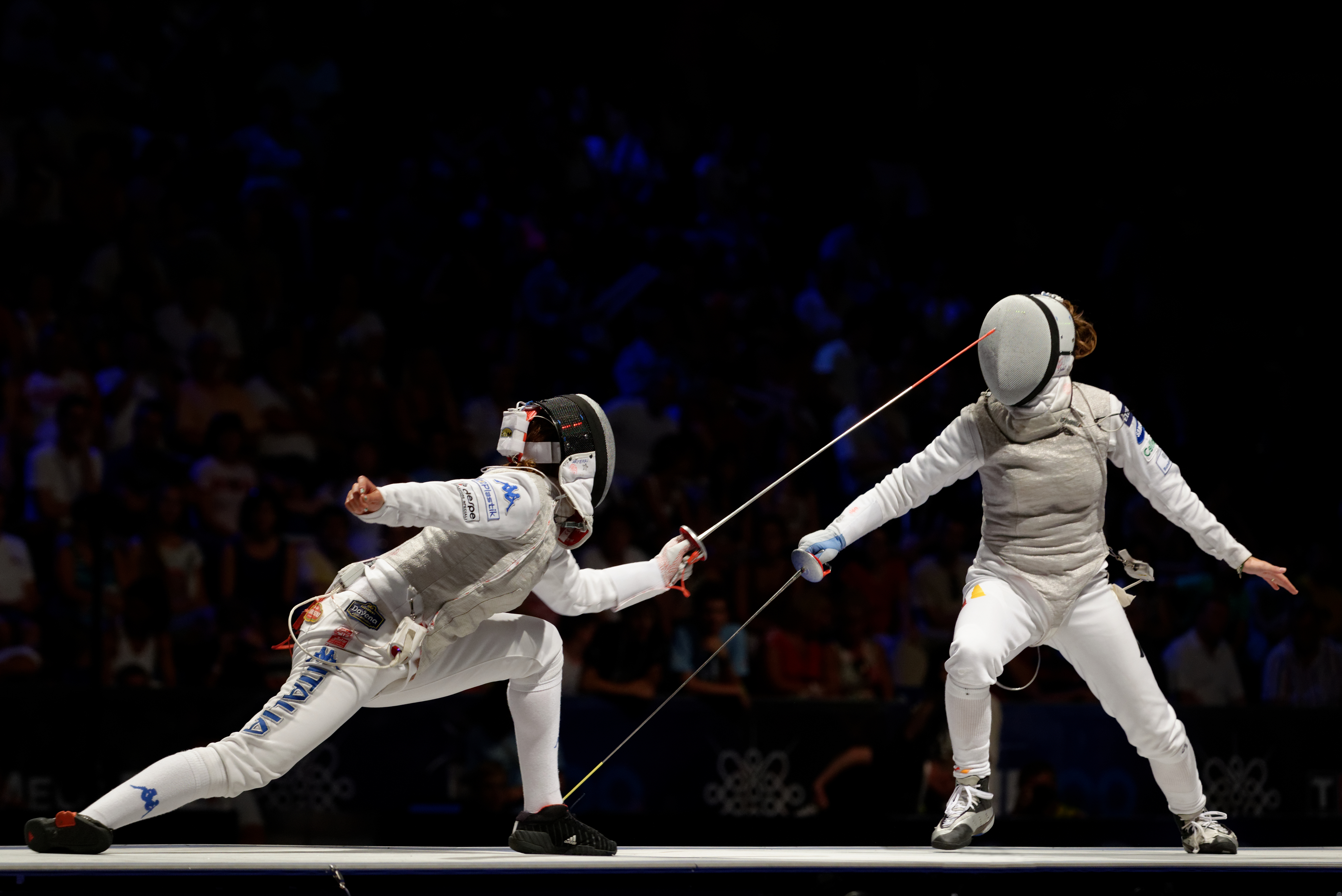 Italy's Arianna Errigo (L) competes against Carolin Golubytskyi of Germany (R) in the final of the women's foil event in the 2013 World Fencing Championships 2013 at Syma Hall in Budapest, 10 August 2013.